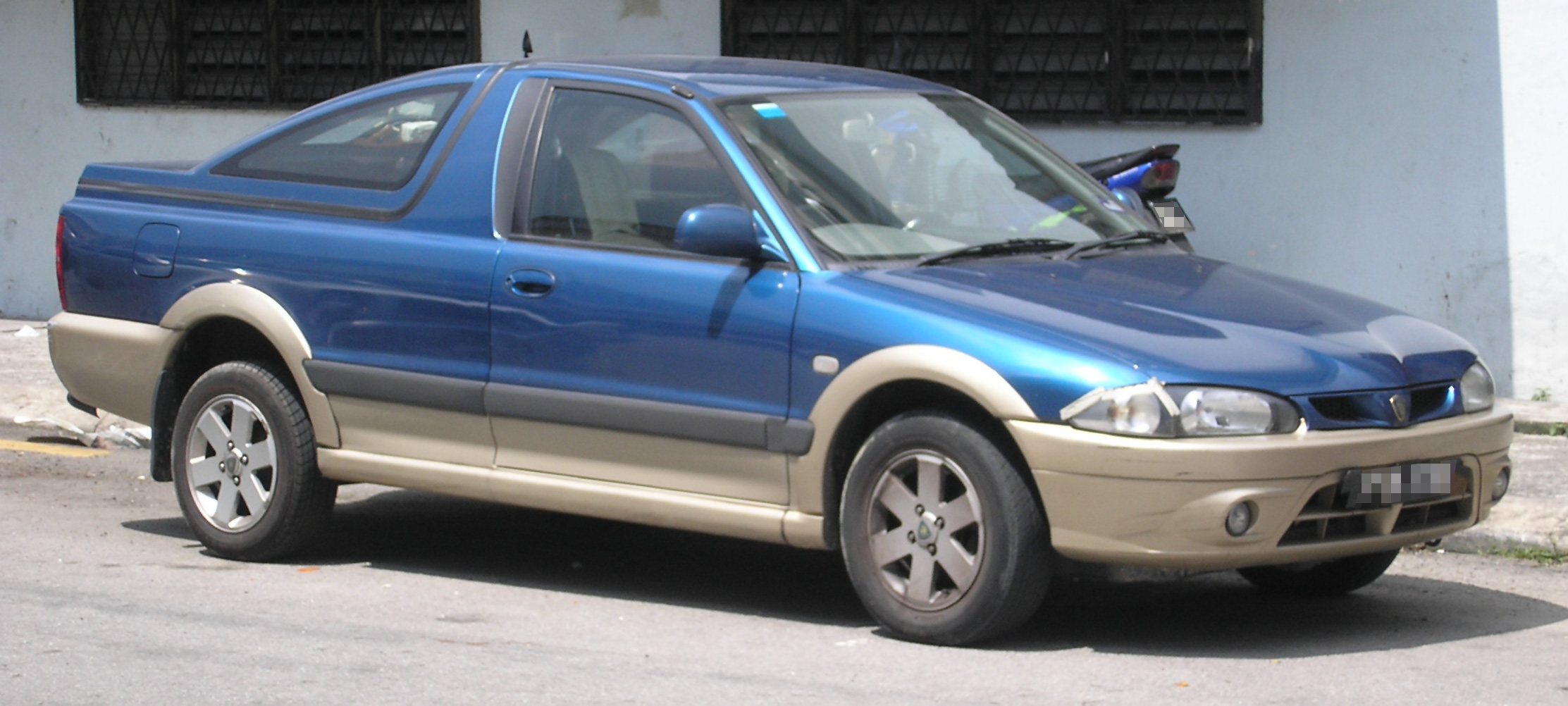 Front-side shot of a Proton Arena (with a solid bed cover), in Pudu, Kuala Lumpur, Malaysia.